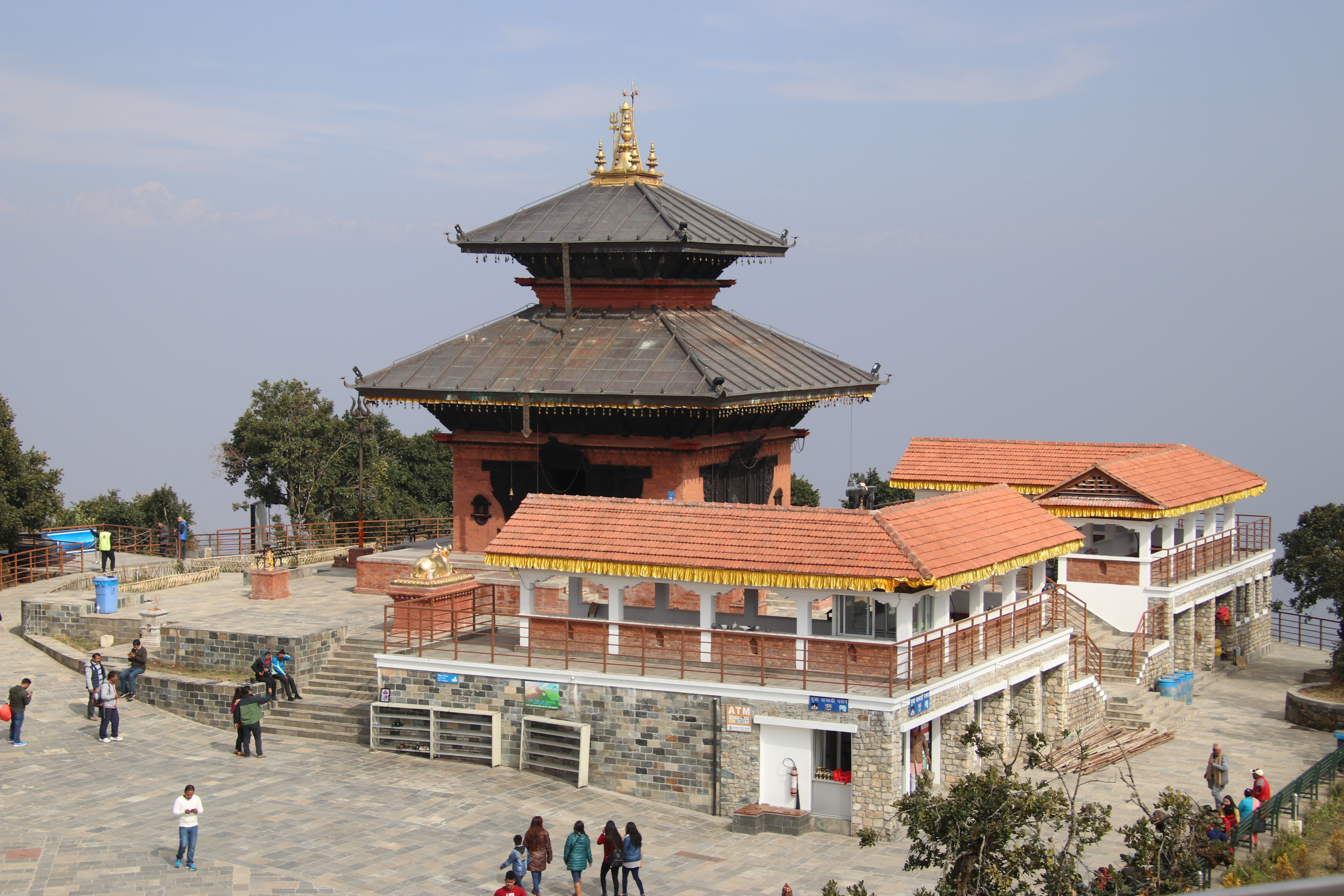 View of Bhaleshwor Mahadev temple from Chandragiri View Tower, Chandragiri Hill, Chandragiri Municipality, Kathmandu District (Provision No 3) नेपाली: काठमाडाै जिल्ला, चन्द्रागीरी नगरपालीकामा अवस्थित चन्द्रागीरी पहाडमा (चन्द्रागीरी हिल्स्) रहेकाे भलेश्वर महादेवकाे मन्दिर । भलेश्वर महादेवकाे मन्दिरकाे सम्बन्ध श्री ५ बडामहाराजधिराज पृथ्वीनारायण शाहदेवकाे विशाल नेपाल एकिकरणसंग जाेडेर हेरीने गरिन्छ ।